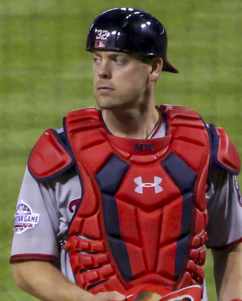 Matt Wieters of the Nationals catching in St.Louis.